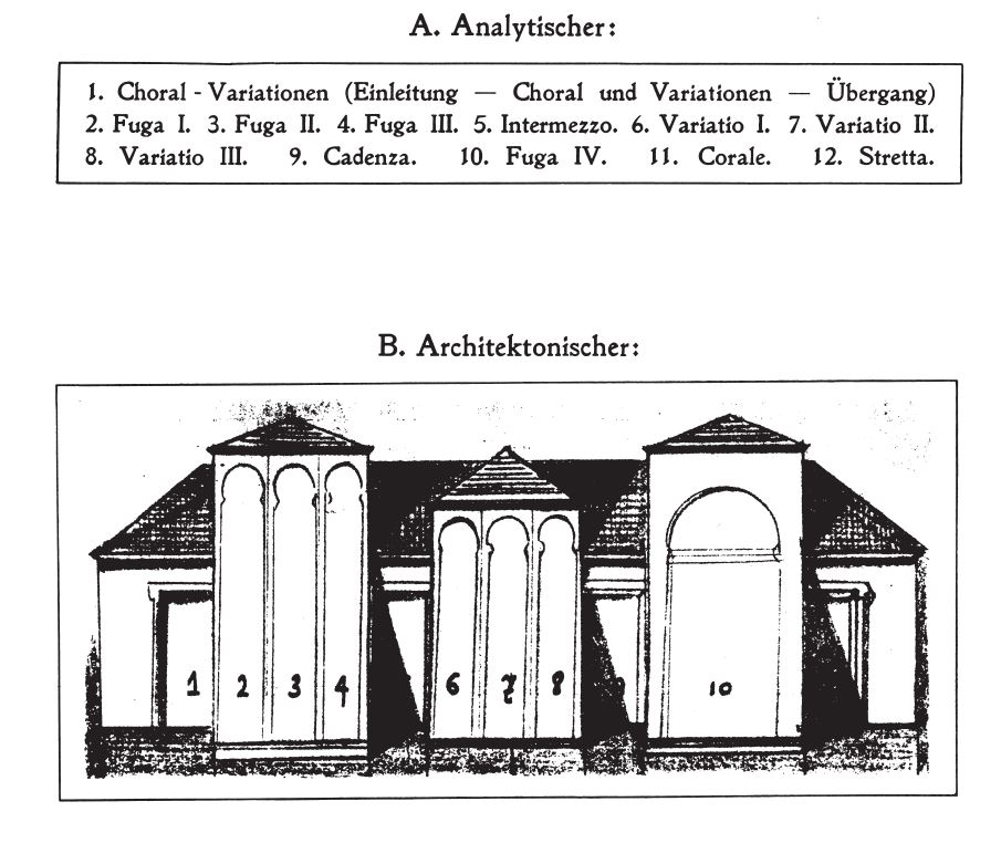 Sketch by Ferruccio Busoni (1866-1924) of the structure of his Fantasia Contrappuntistica, 1910.